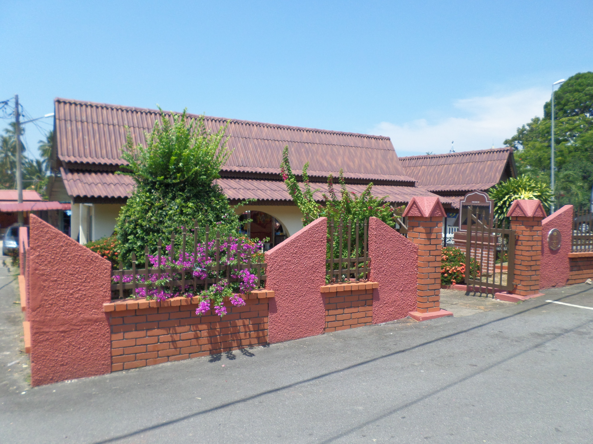 Hang Tuah's Well, Kampung Duyong, Malacca, MalaysiaBahasa Melayu: Perigi Hang Tuah, Kampung Duyong, Melaka, Malaysia